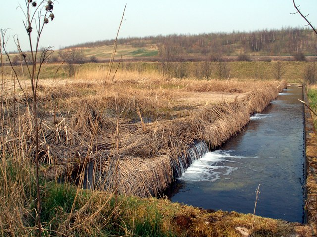 Reedbeds Producing clean, clear, stream water quality outflows, from water discharged from the old Woolley Colliery Coal Mine. It then flows into the River Dearne.